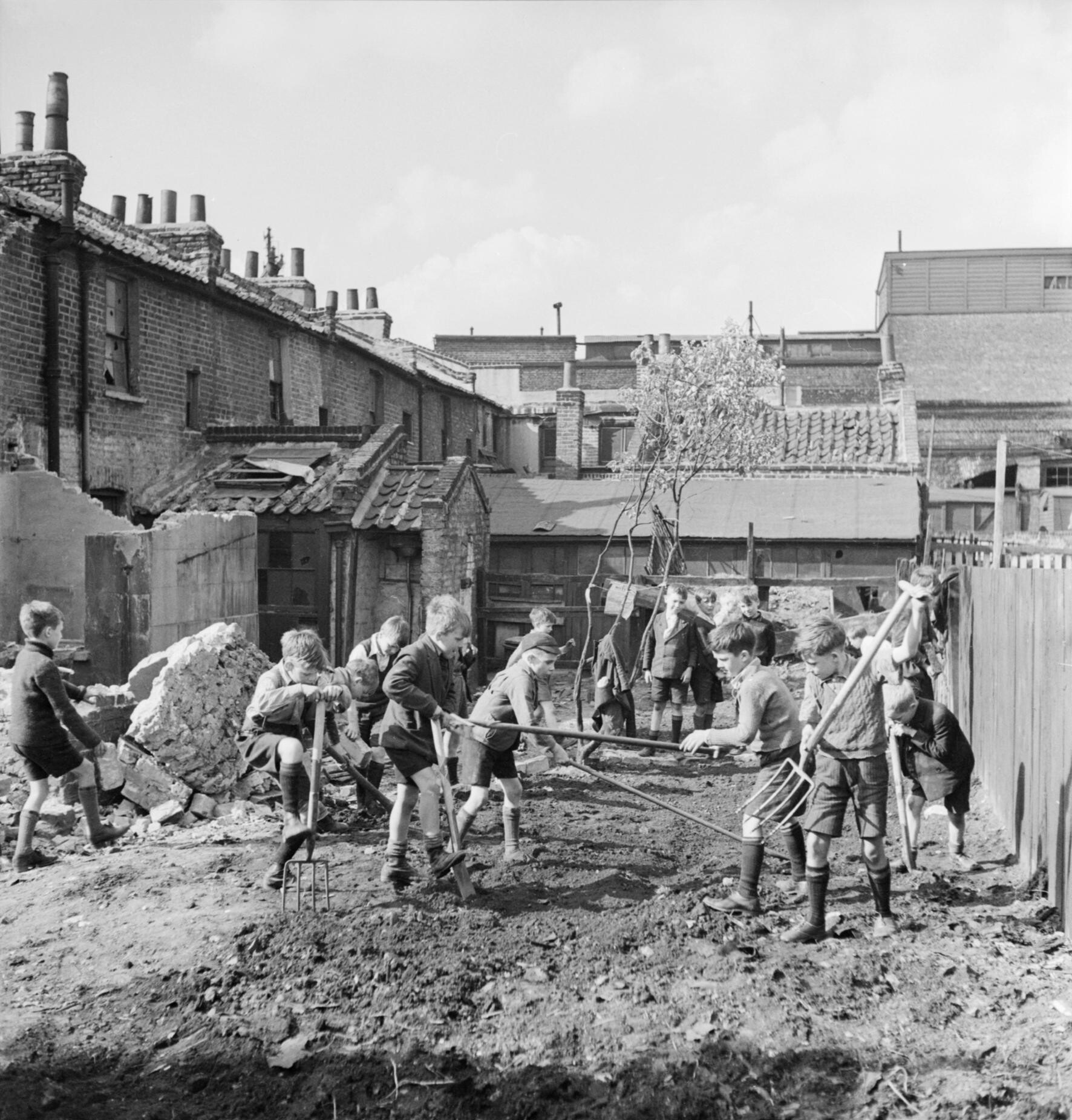 A group of boys set to work creating an allotment on a bomb site in London during 1942. A group of boys set to work with forks and spades amidst the rubble of a bomb site in the East End of London. They are creating an allotment on this small patch of wasteland, where a house once stood. Behind them, the backs of other houses can be seen.